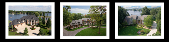 3 photo collage